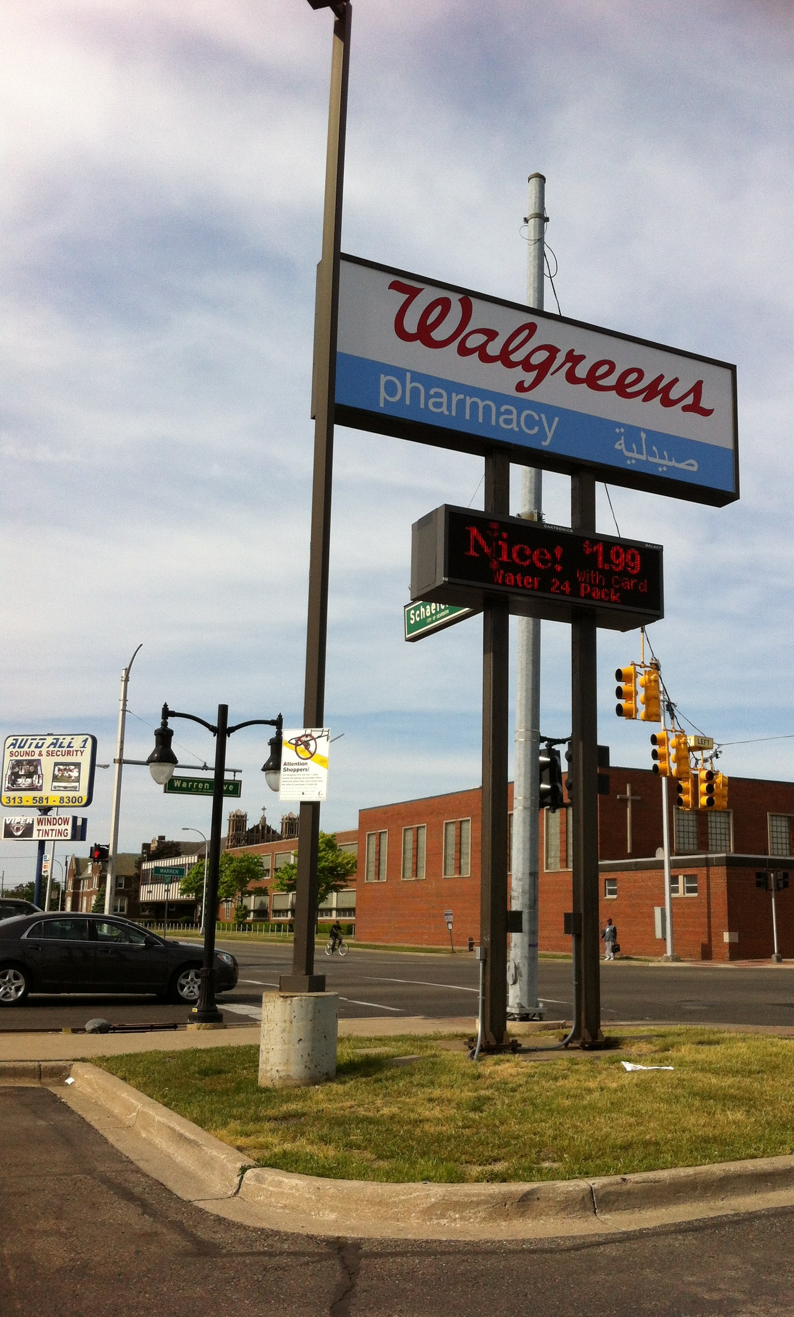 Walgreens Store # 5032, southwest corner of Schaeffer and Warren - 13601 West Warren Avenue, Dearborn, MI 48126